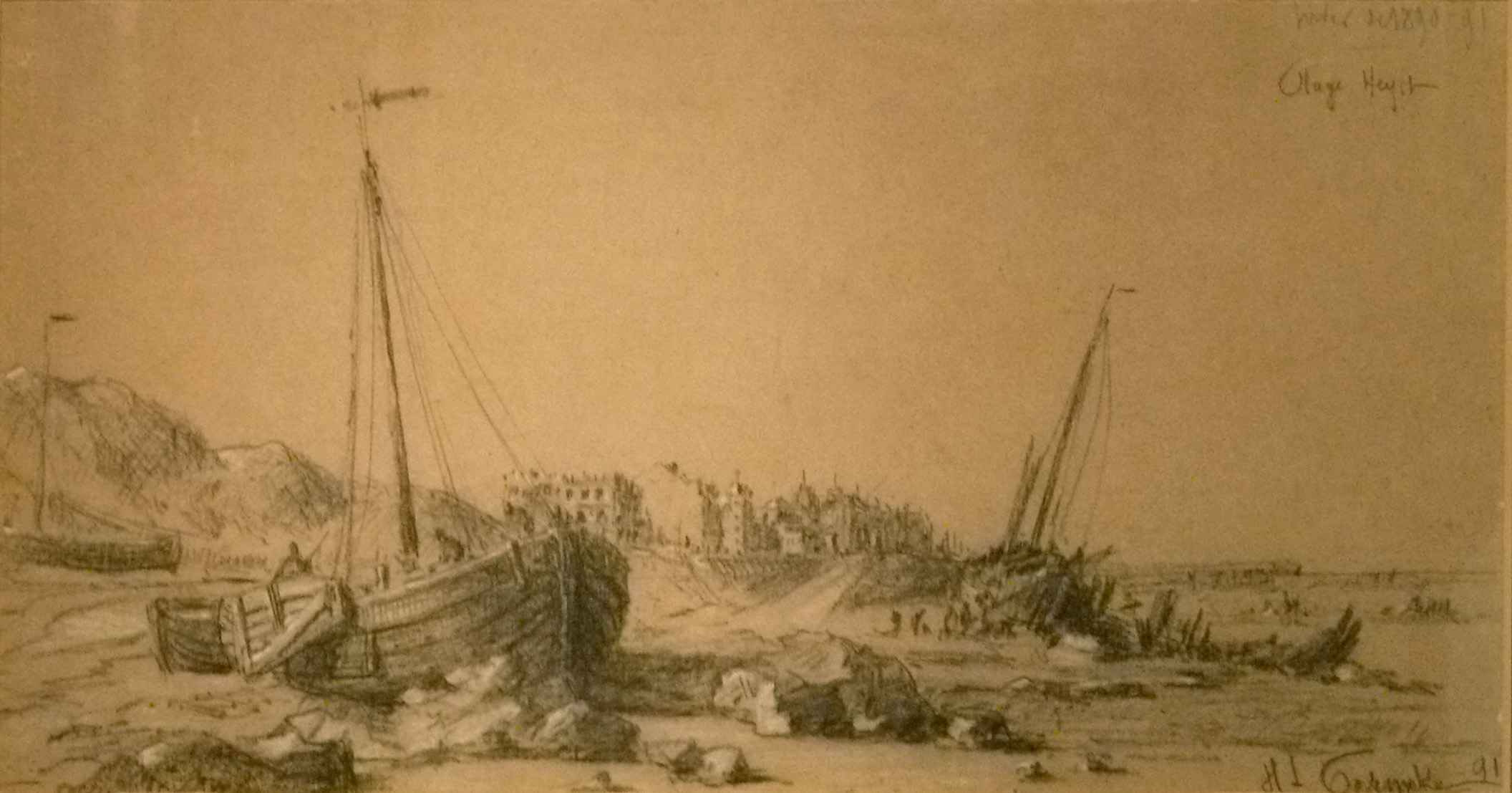 "The beach at Heyst, 1890-1891" charcoal (33 x 60 cm) by the Belgian painter Henri Permeke (1849-1912); private collection